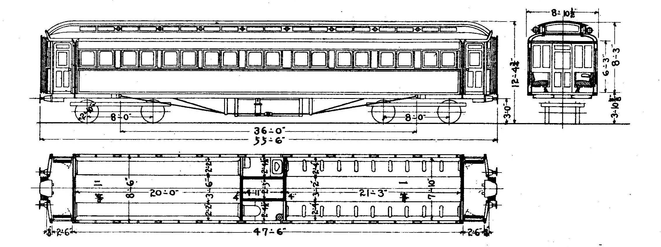 Type drawing of JGR's Hoiro5150 type passenger car (Gubusha No.122)